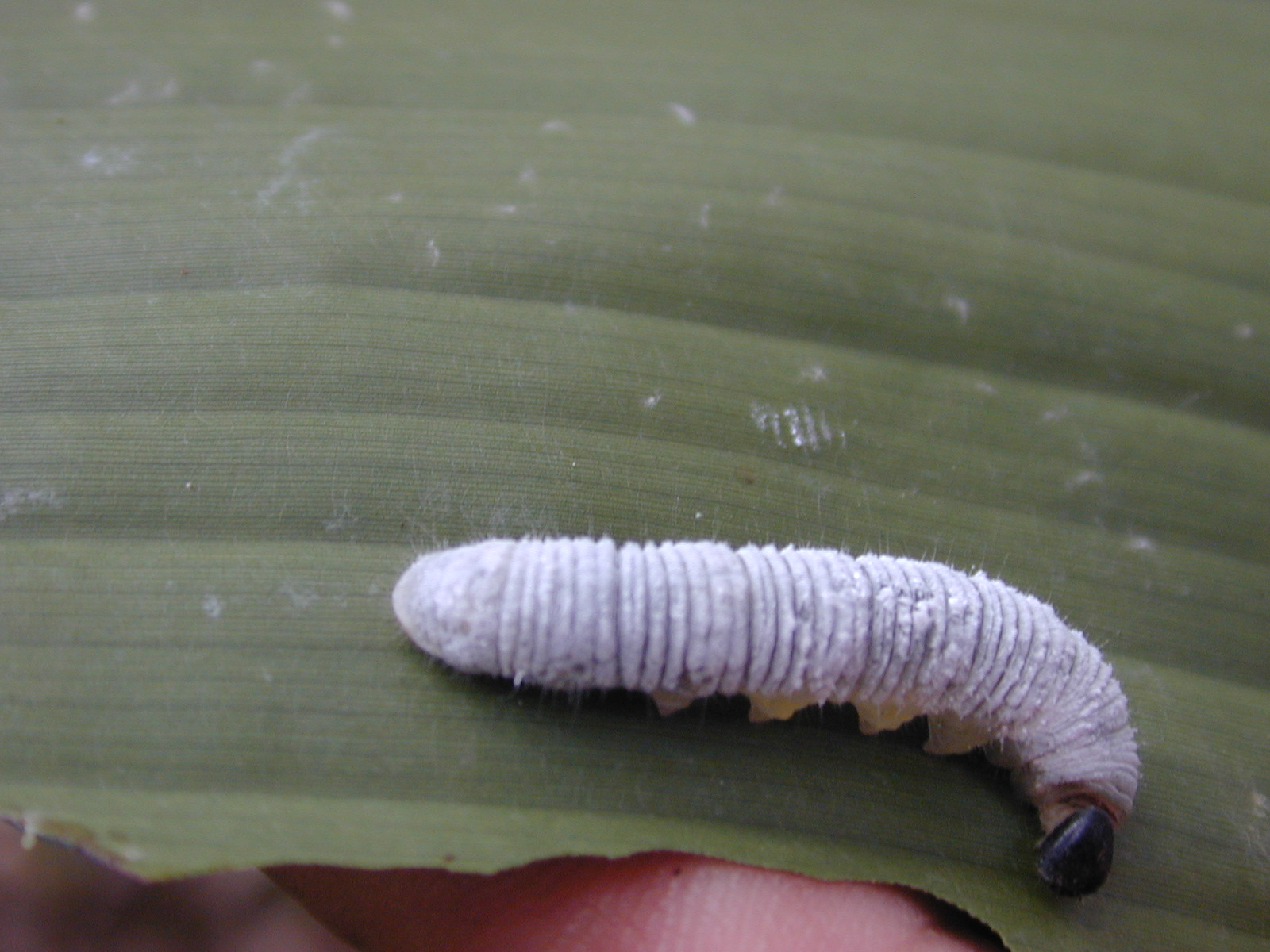 Musa sp. (with Pelopides thrax (Hübner, 1821) banana skipper larva). Location: Maui, Kaumahina Hana Hwy